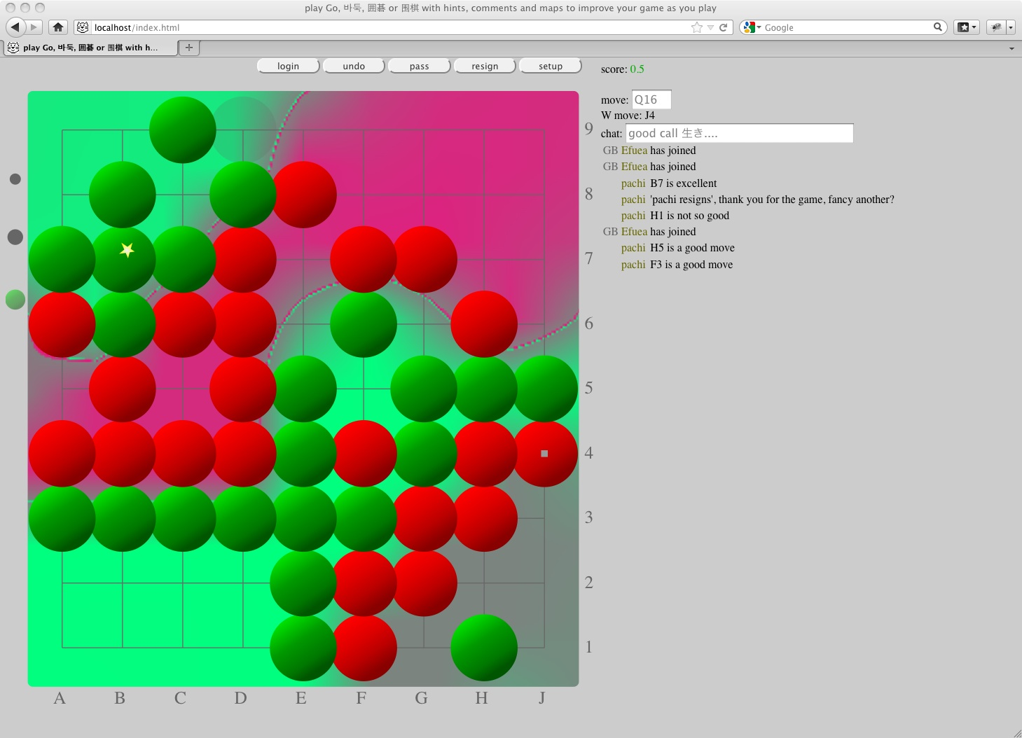 9 by 9 Go game with maps, hints and comments as at